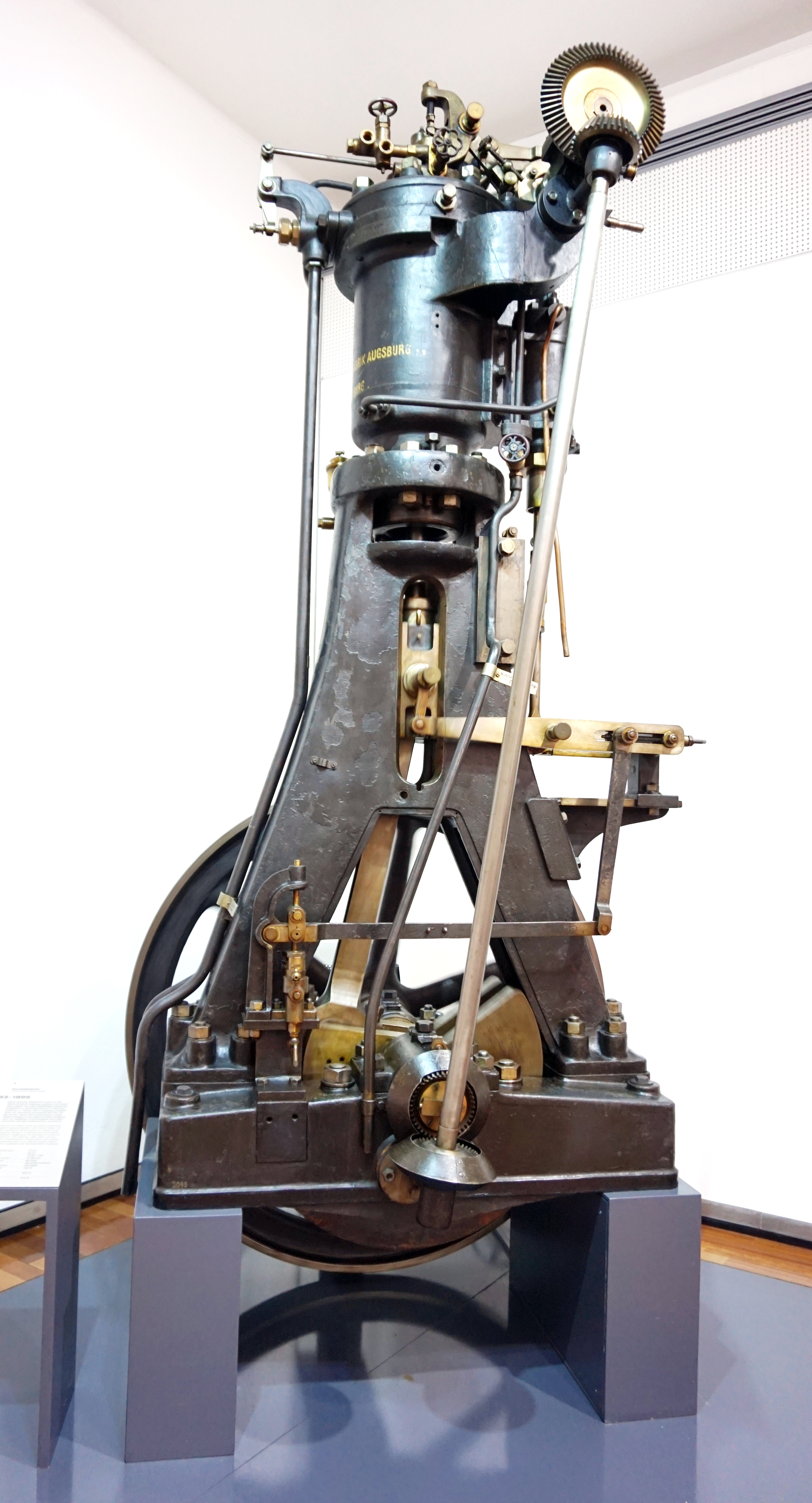 2nd Experimental Diesel Engine in MAN-Museum in Augsburg, Germany.